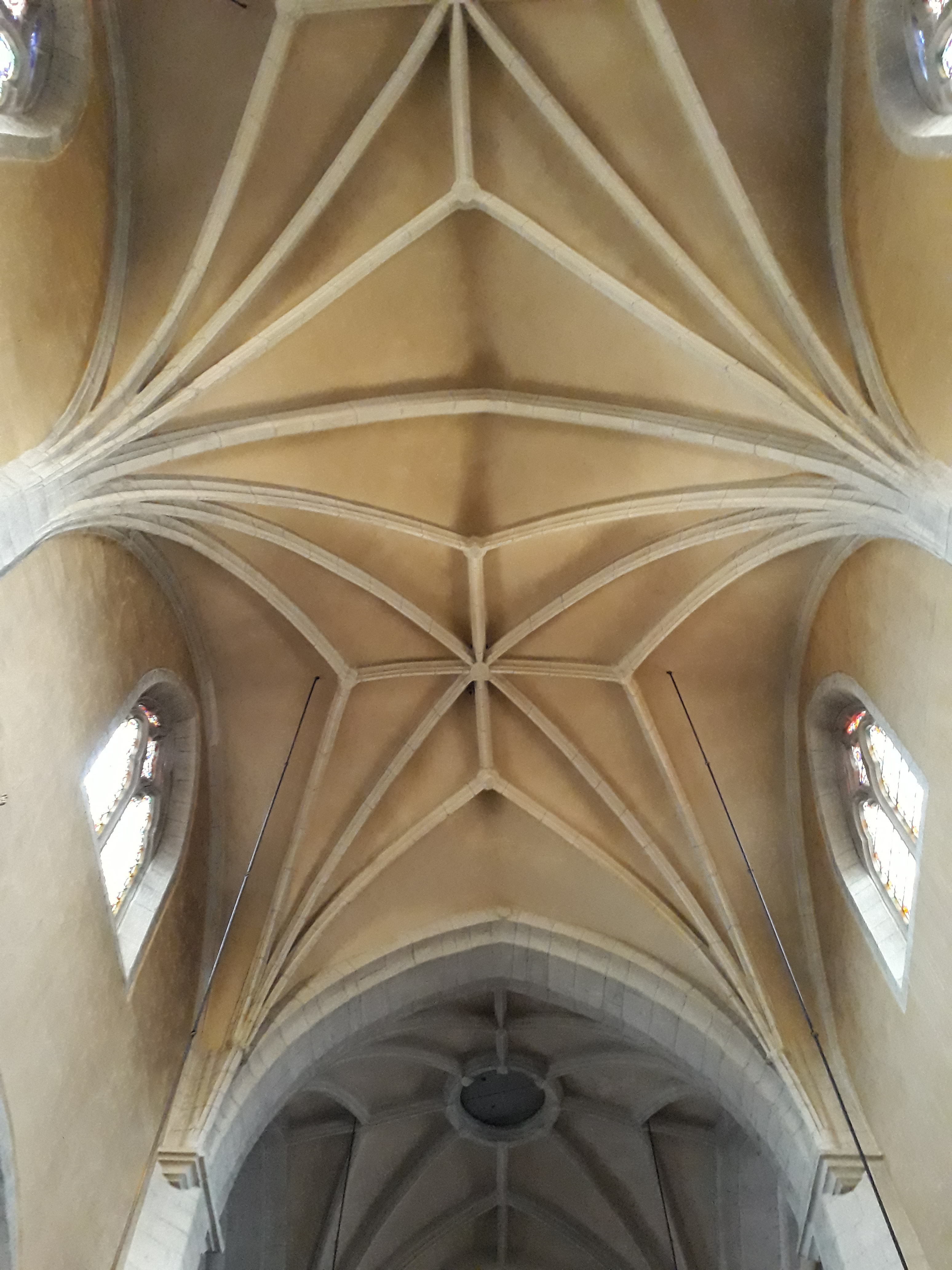 Vaults of the nave of the basilica Notre-Dame of Gray, Haute-Saône, France.